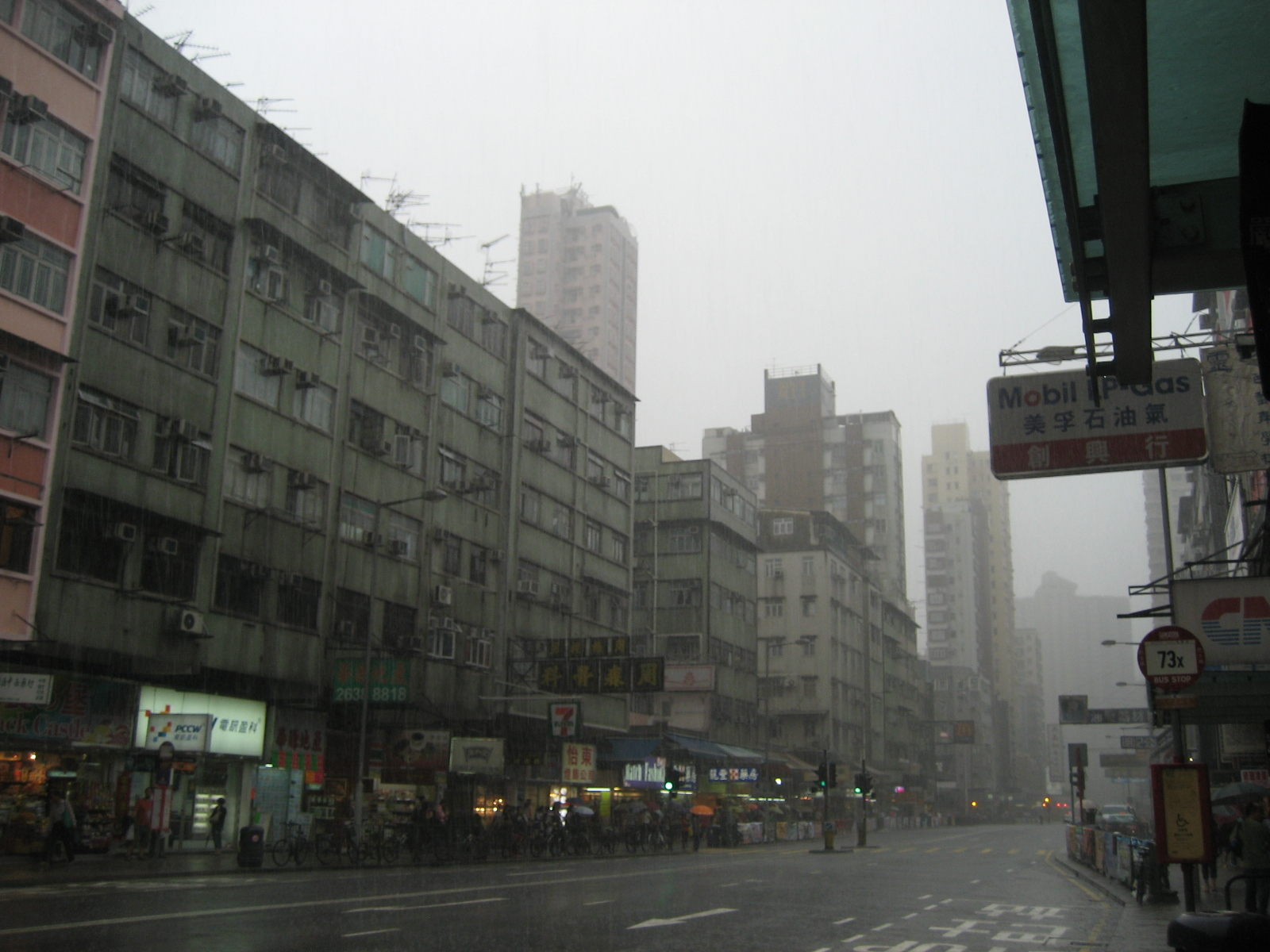 Kwong Fuk Road, Tai Po, under a heavy rain.